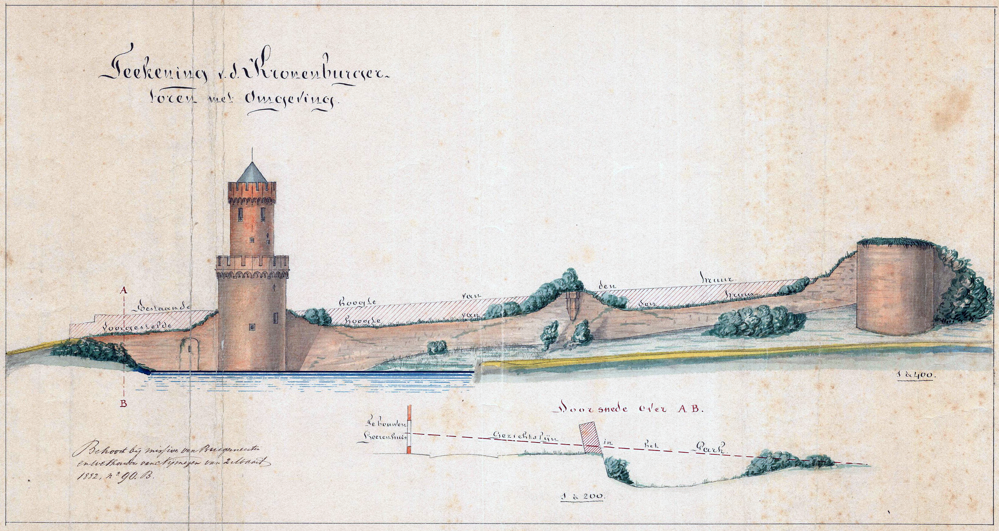 Drawing with proposal of a plan to partially demolish the old wall next to the Kronenburgerpark Pierre Cuypers 1882